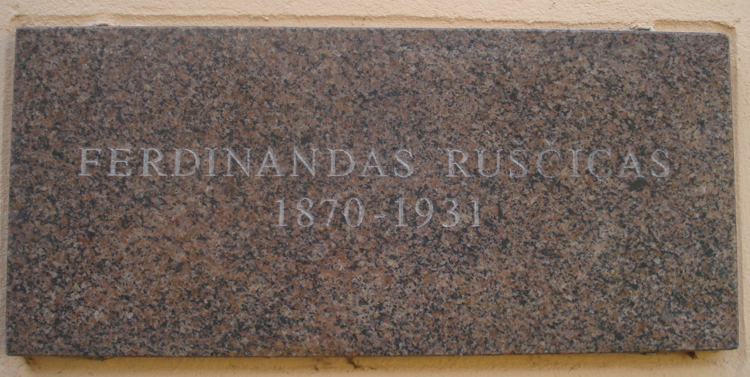 Tablet in memory of painter Ferdynand Ruszczyc (1870—1936) in the courtyard of the Vilnius Academy of Arts